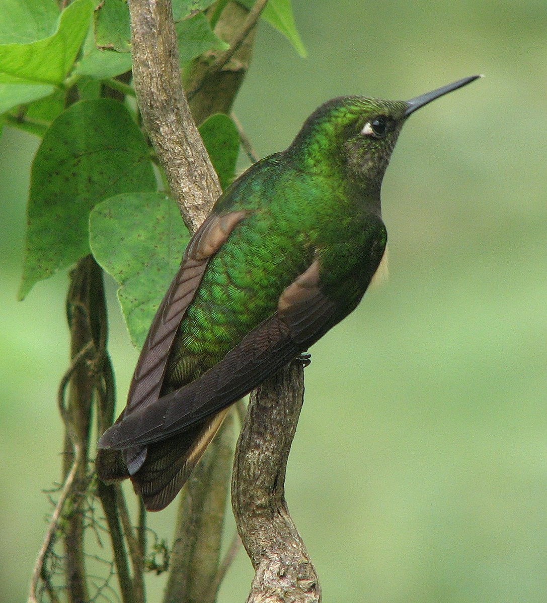 Profile image of a Buff-tailed Coronent